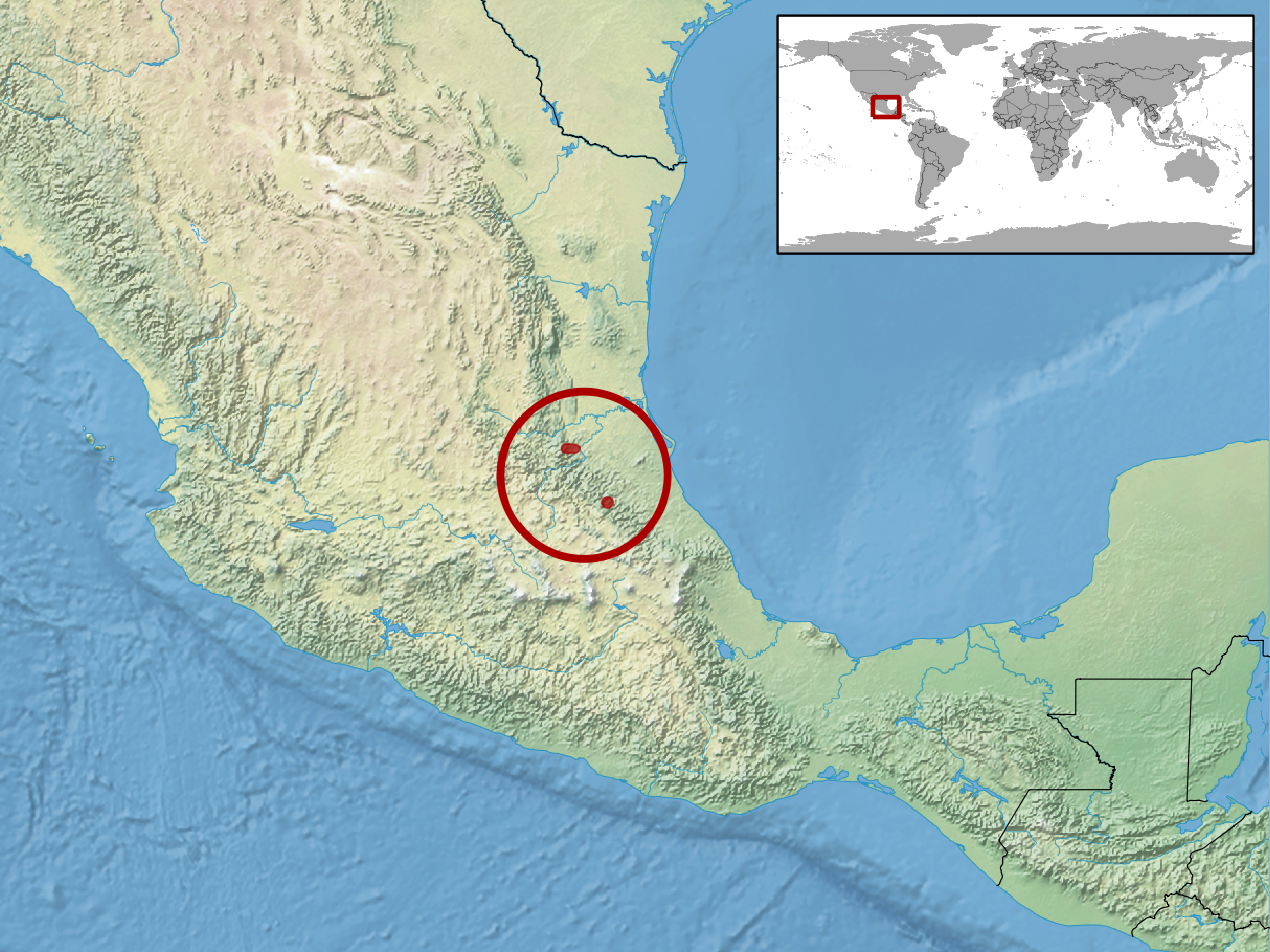 geographic distribution of Xenosaurus newmanorum (Native: Mexico)